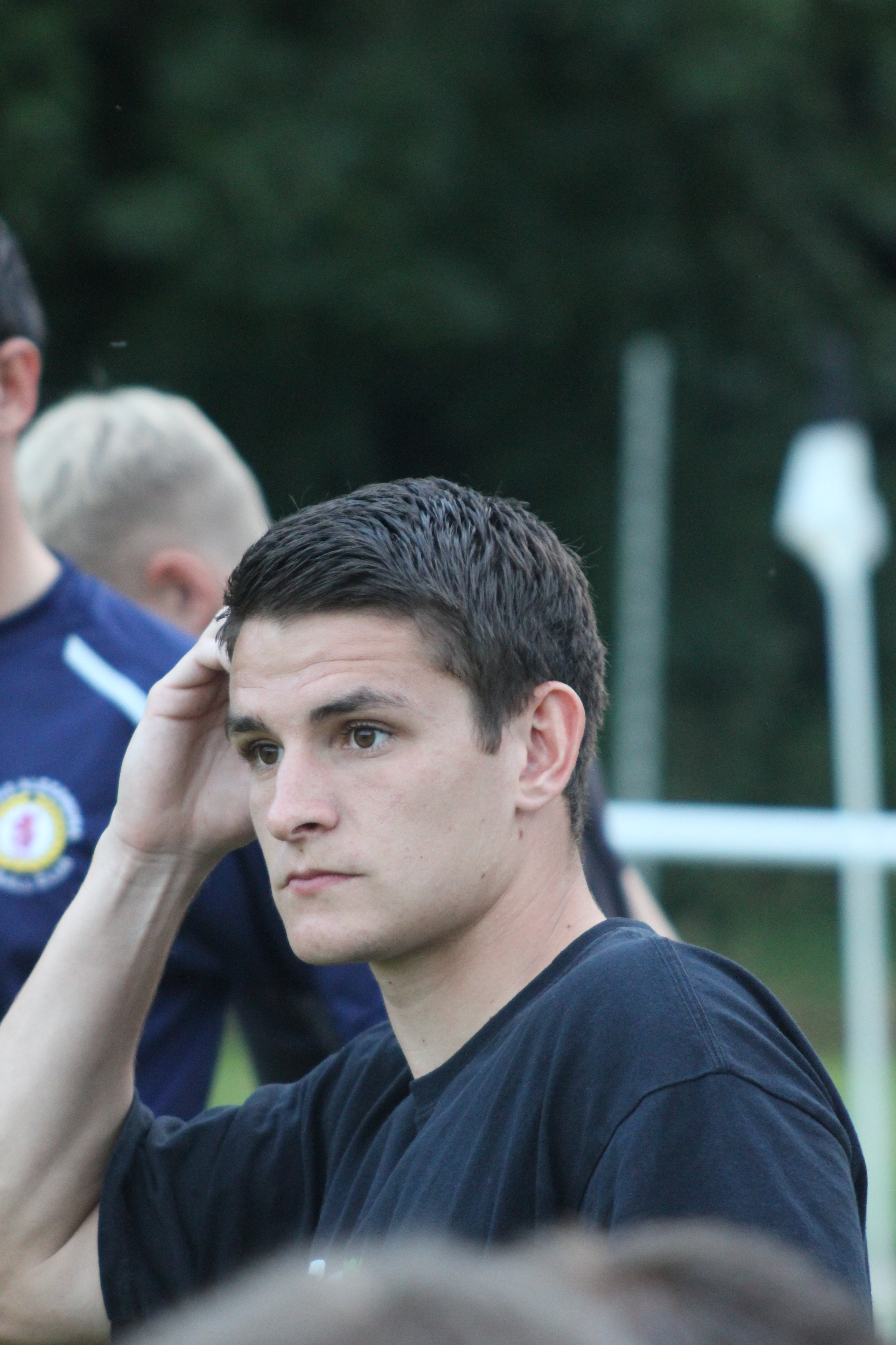 Crewe played a pre-season friendly at Pewsey Vale FC on 26 July 2012. Visitors won 5-0. Midfielder Ashley Westwood watches